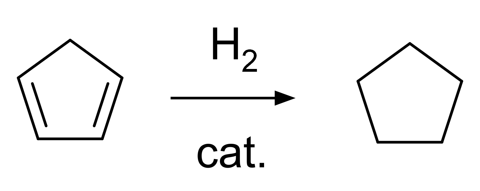 Cyclopentane synthesis with catalytical reduction of cyclopentadiene